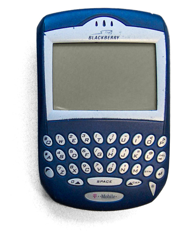 RIM BlackBerry 7230